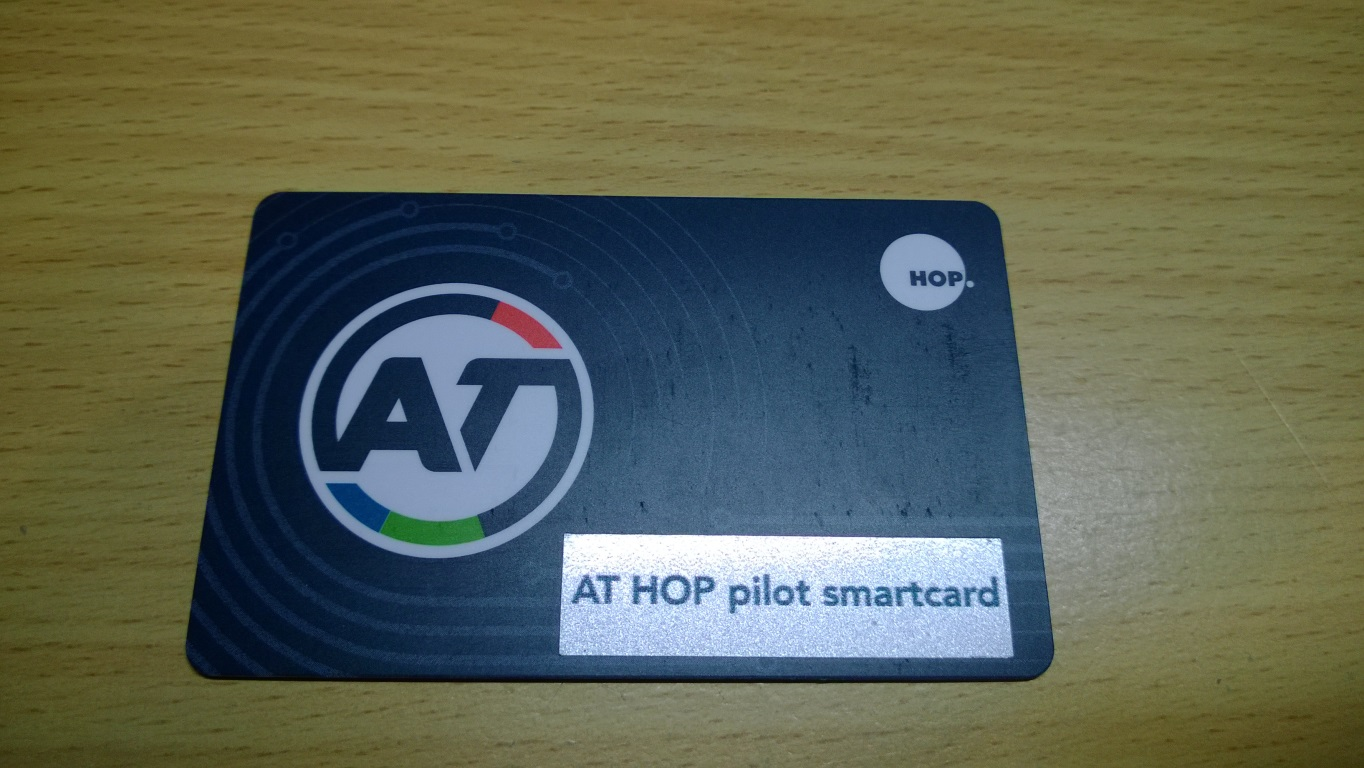 Auckland's AT HOP smartcard for public transport services, with pilot sticker applied